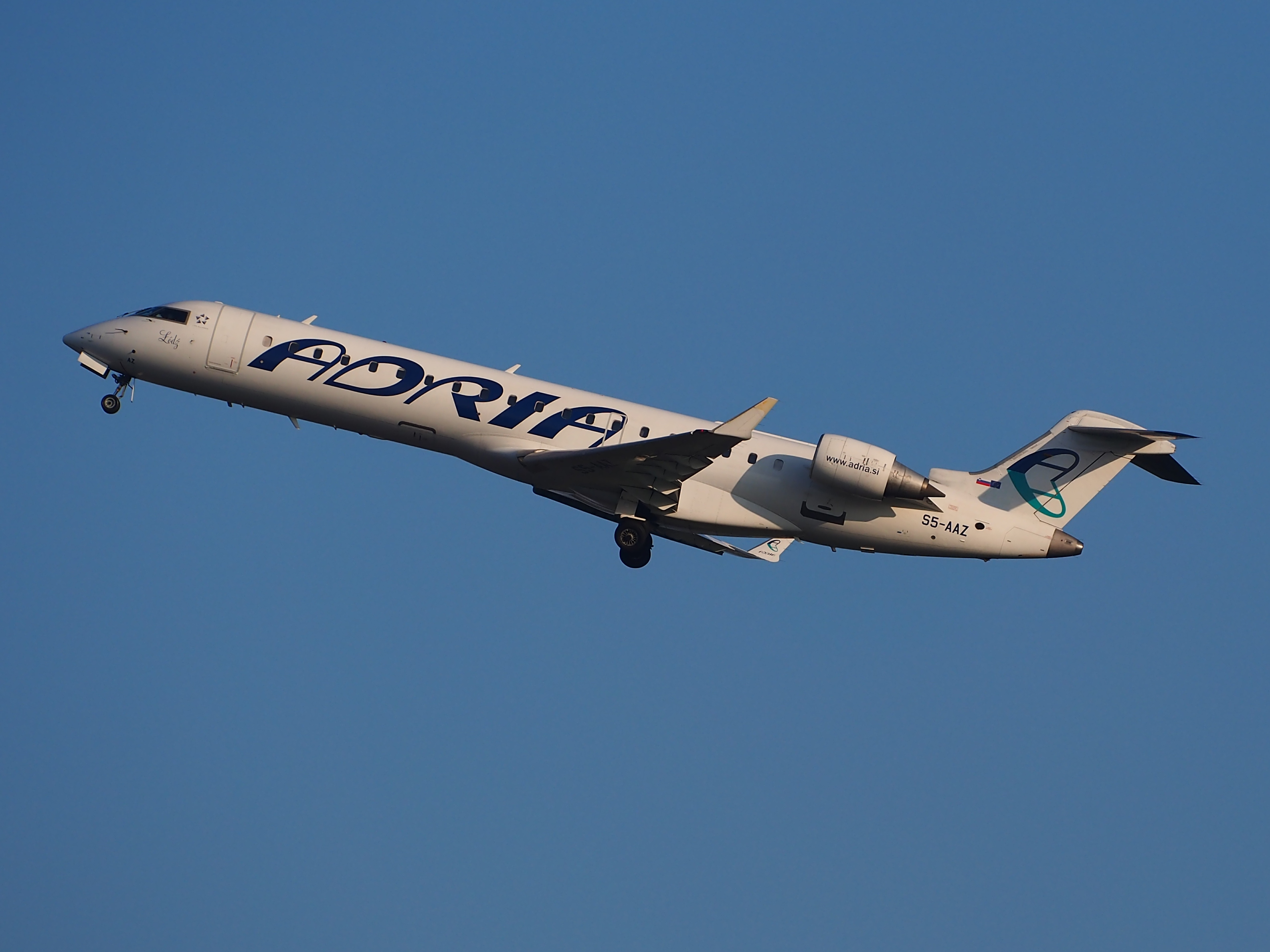 S5-AAZ Adria Airways Canadair CL-600-2C10 Regional Jet takeoff from Schiphol runway 36C.